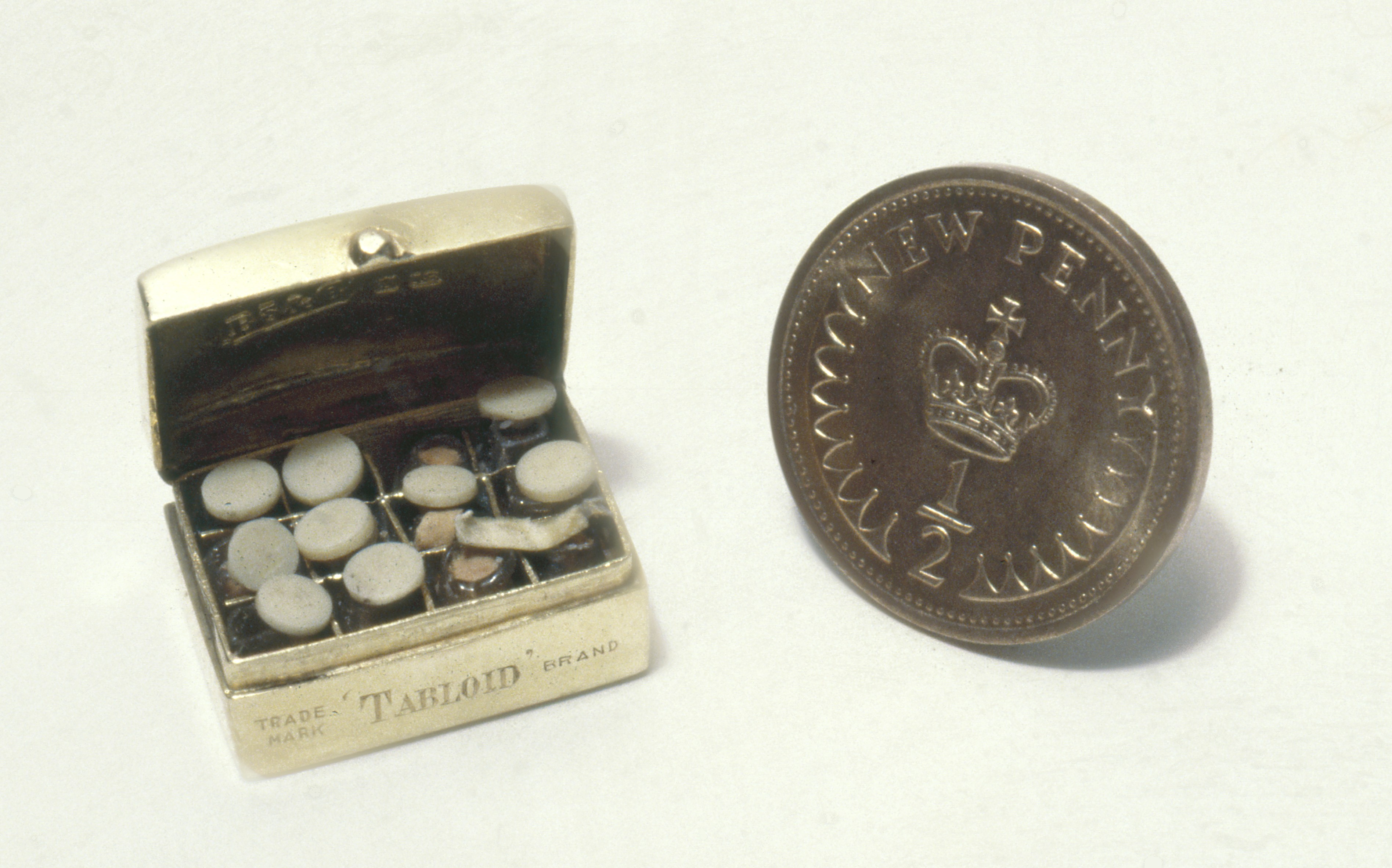 WF/M/I/SL/36. World's smallest medicine chest in Queen Mary's doll house. Photograph shows a comparison of sizes between the medicine chest and a half penny. Archives & Manuscripts